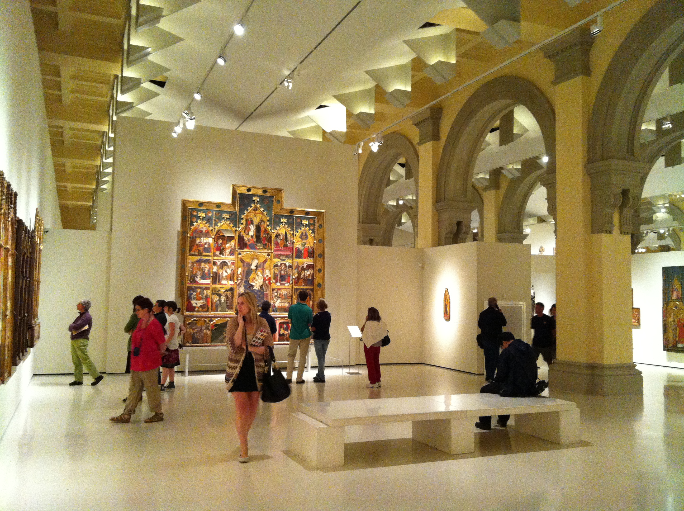 Interior rooms of Museu Nacional d'Art de Catalunya